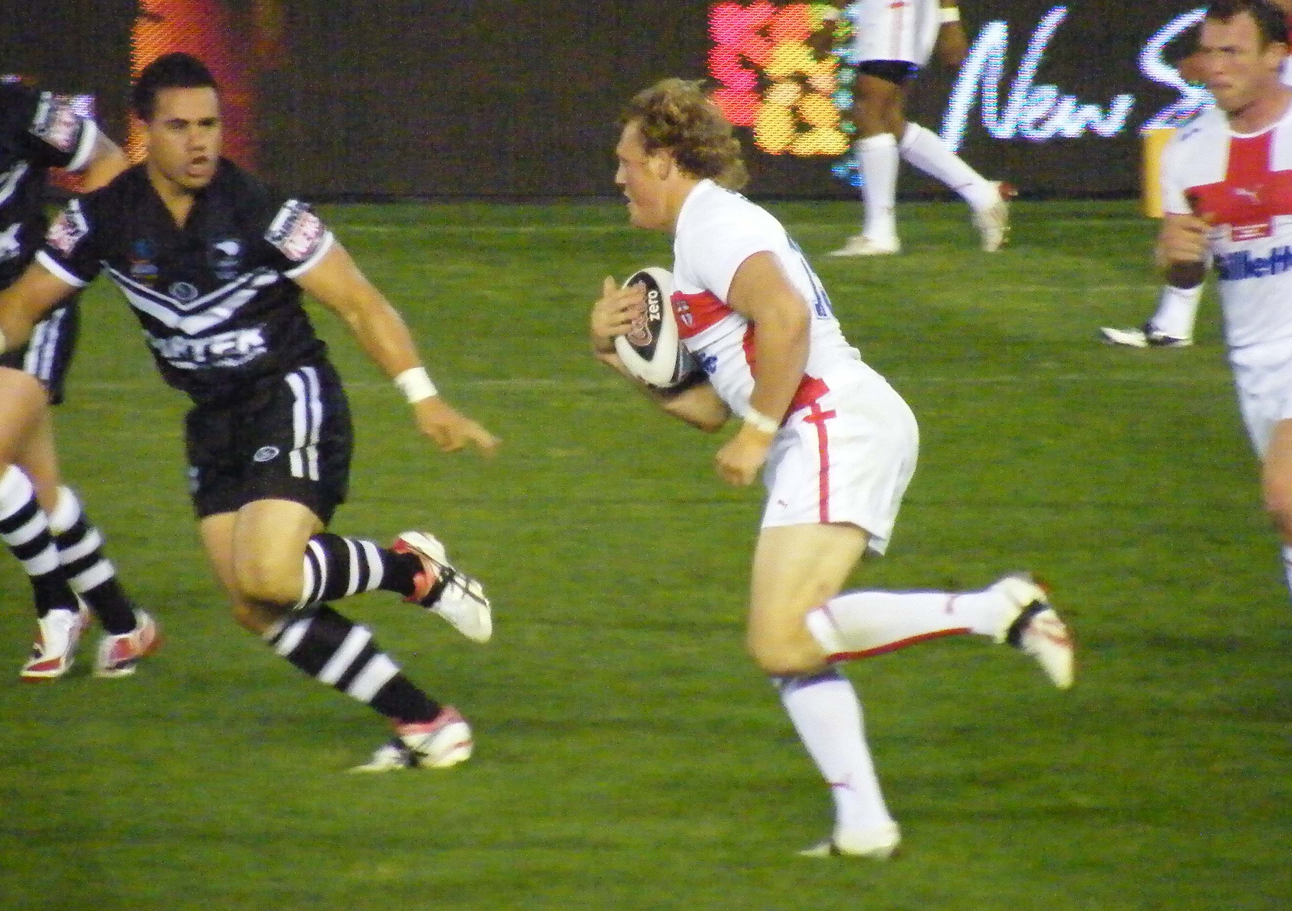 RLWC 2008 - England v New Zealand at Newcastle. England interchange Ben Westwood.